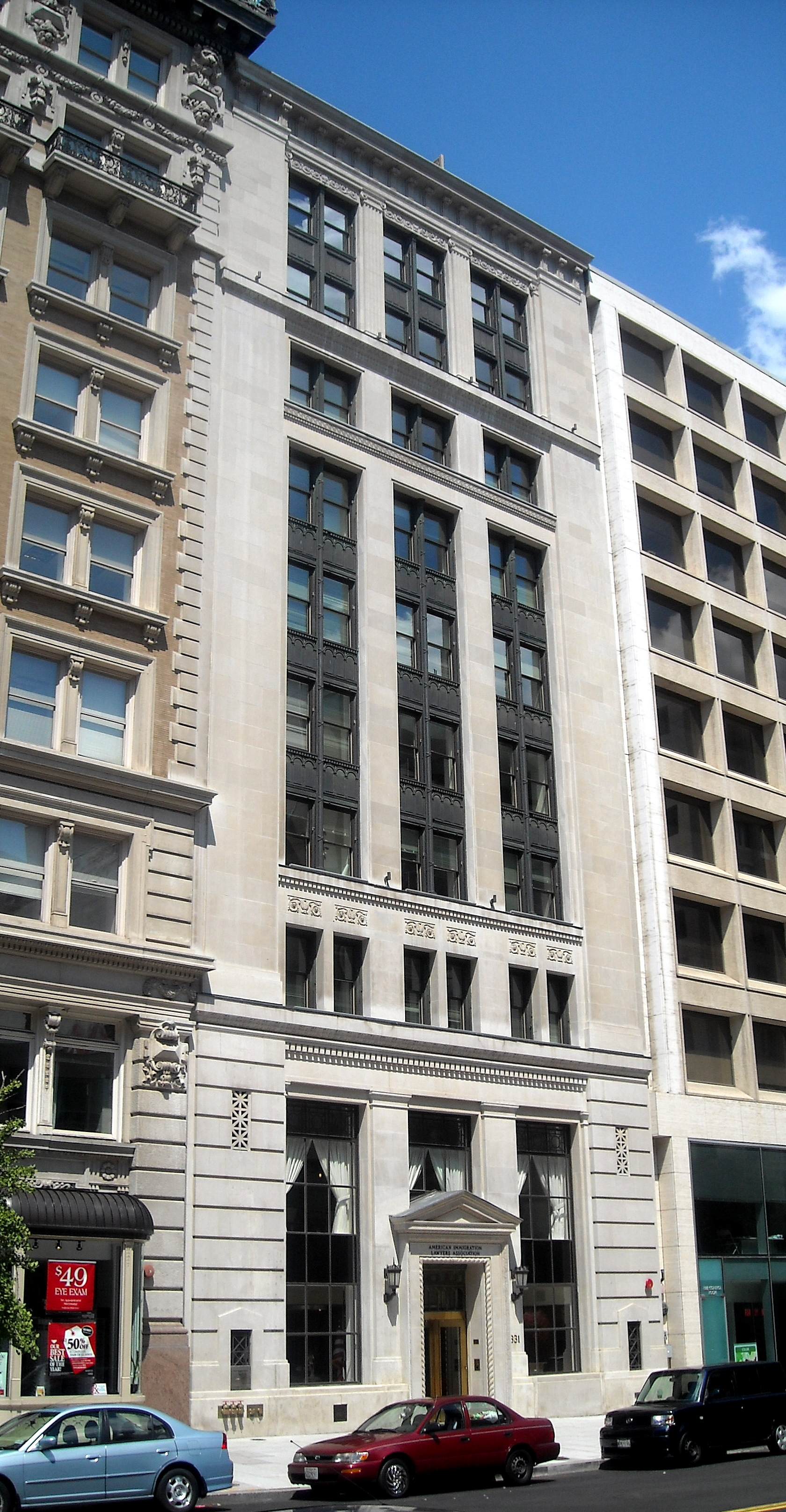 The Second National Bank, now an office building, located at 1331 G Street NW in Washington, D.C. It was constructed in 1928 and designed by prominent local architect Appleton P. Clark.